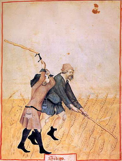 Peasants threshing siligo, a type of wheat. Illustration from an edition of Tacuinum Sanitatis, 15th century.